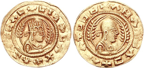 Coin of the Axumite king Ebana